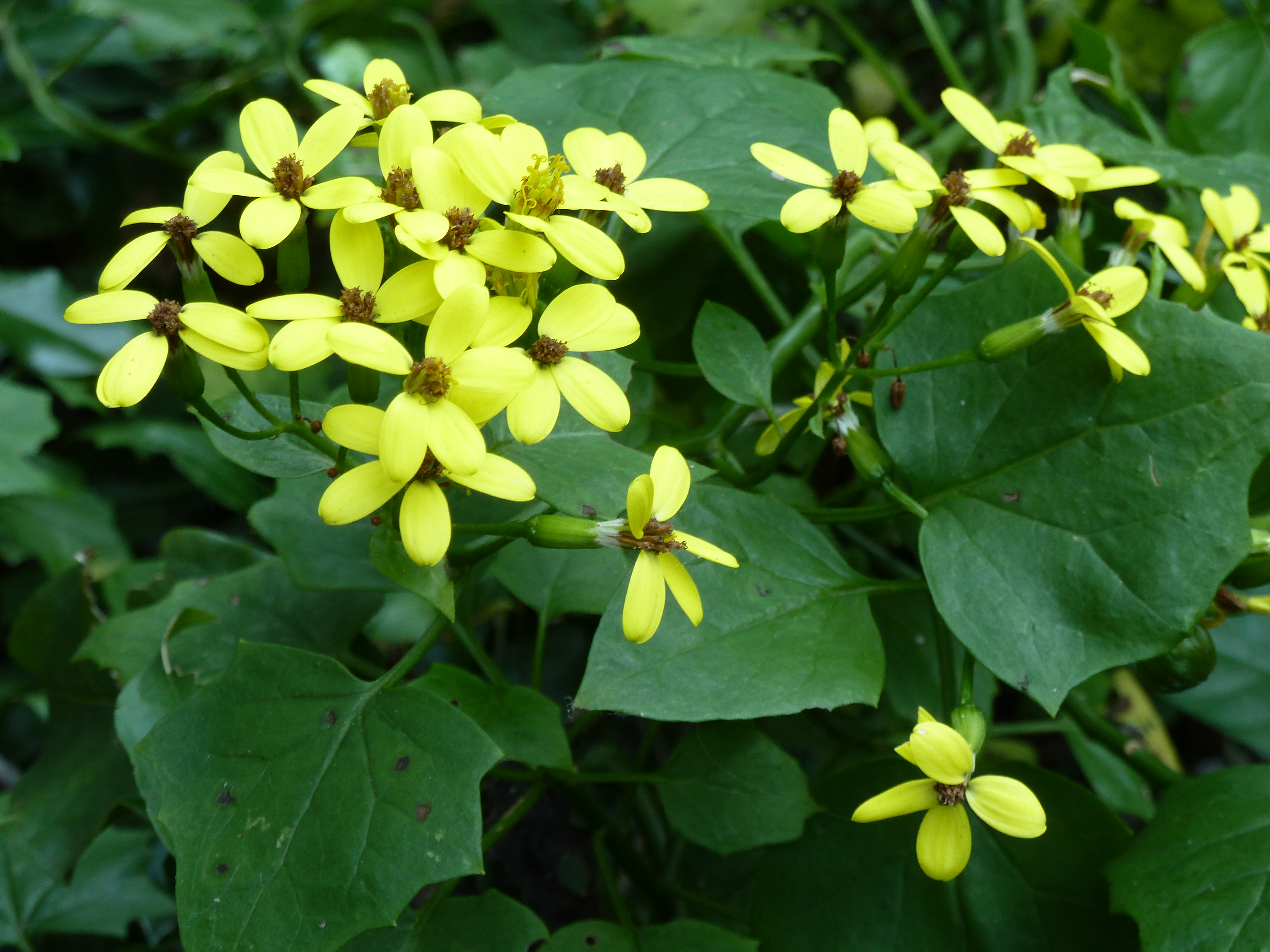 Canary creeper in the Umhlanga Lagoon Nature Reserve, KwaZulu-Natal